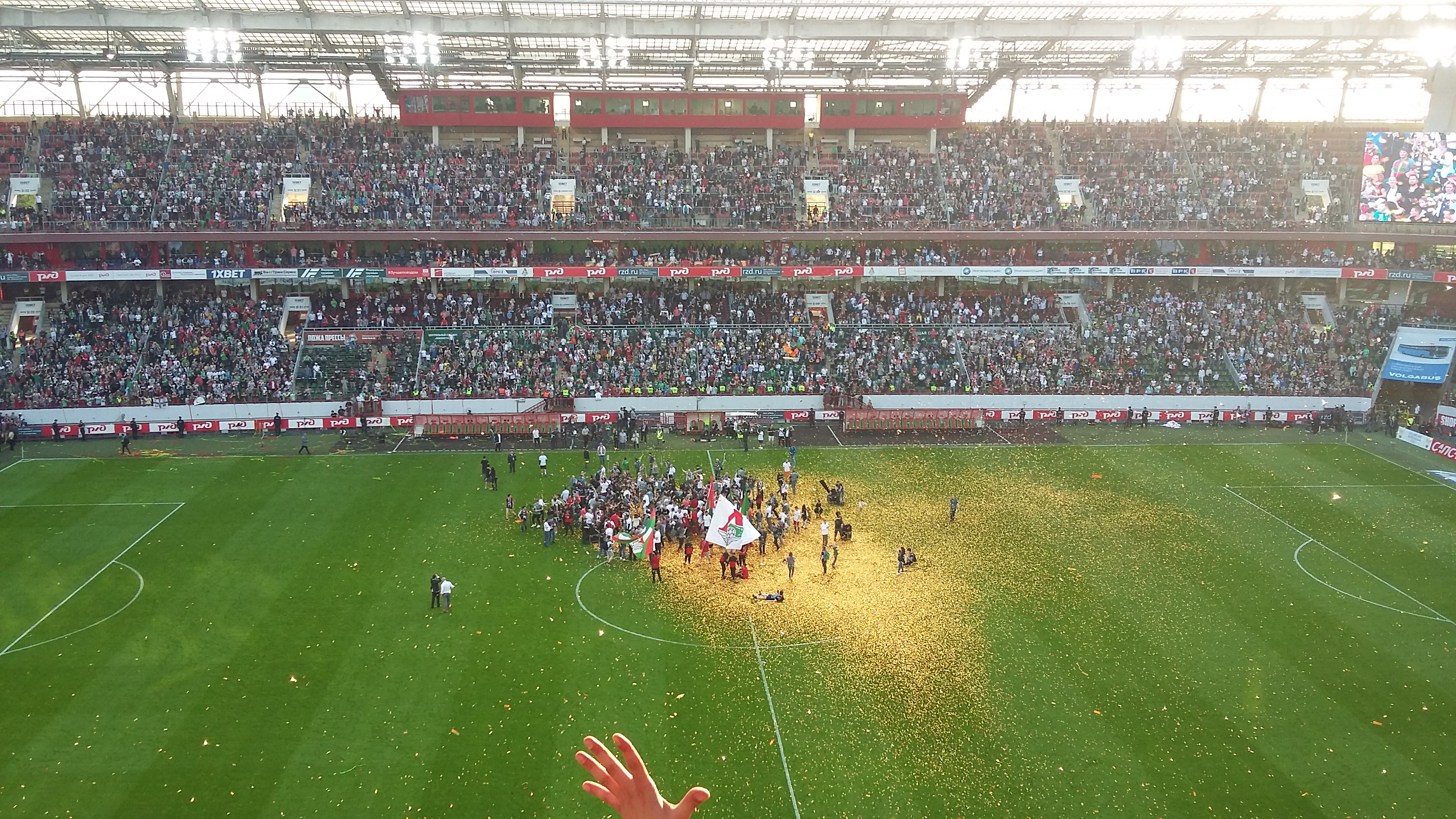 Lokomotiv - Zenit, may 5, 2018. The celebration of championship title of the Loko after the game.